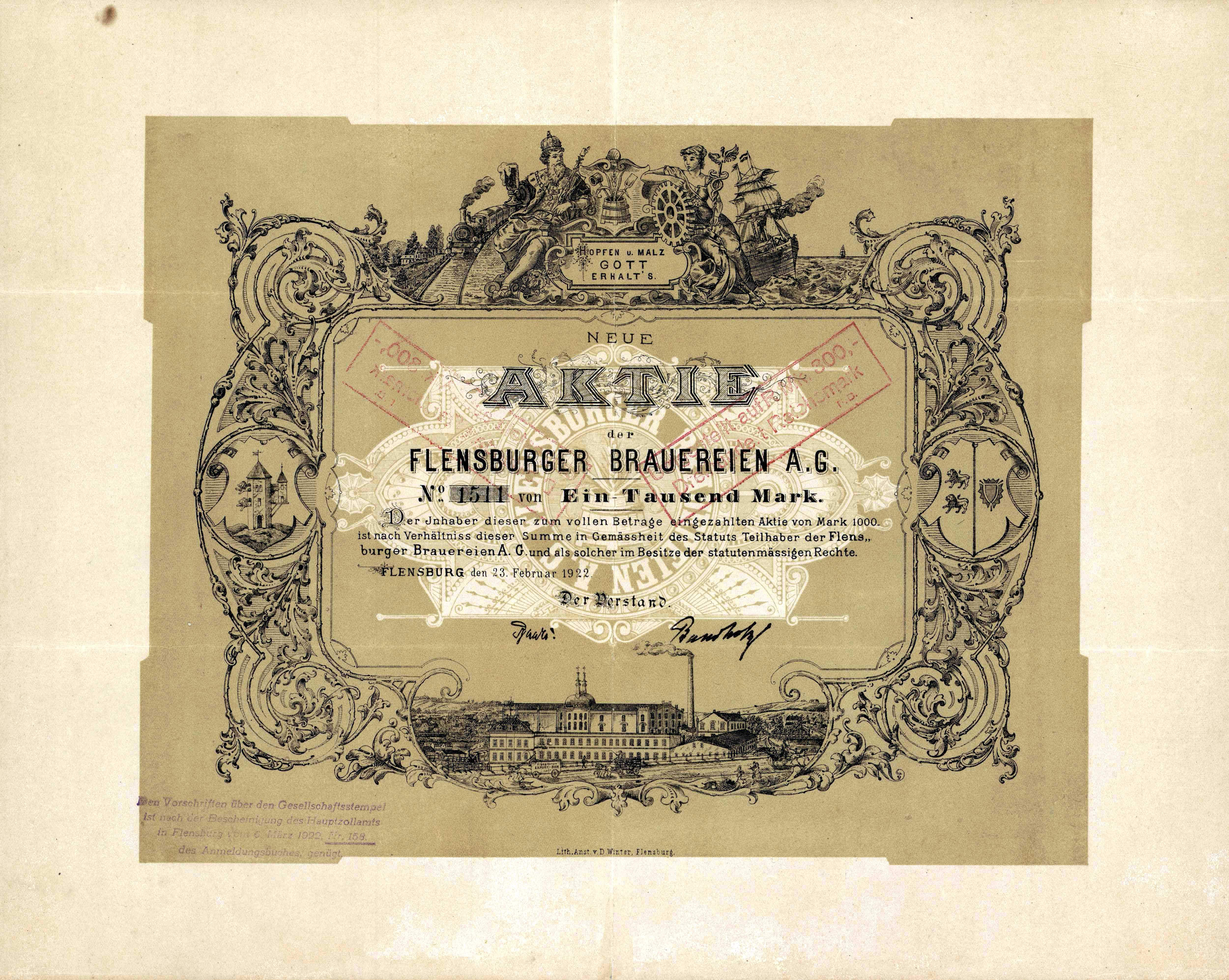 Share of the Flensburger Brauereien AG, issued 23. February 1922